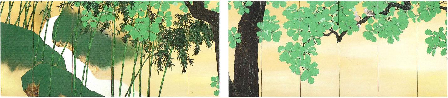 Oak Trees. Pair of six-fold screens, colour on paper. By Hirafuku Hyakusui in 1928.